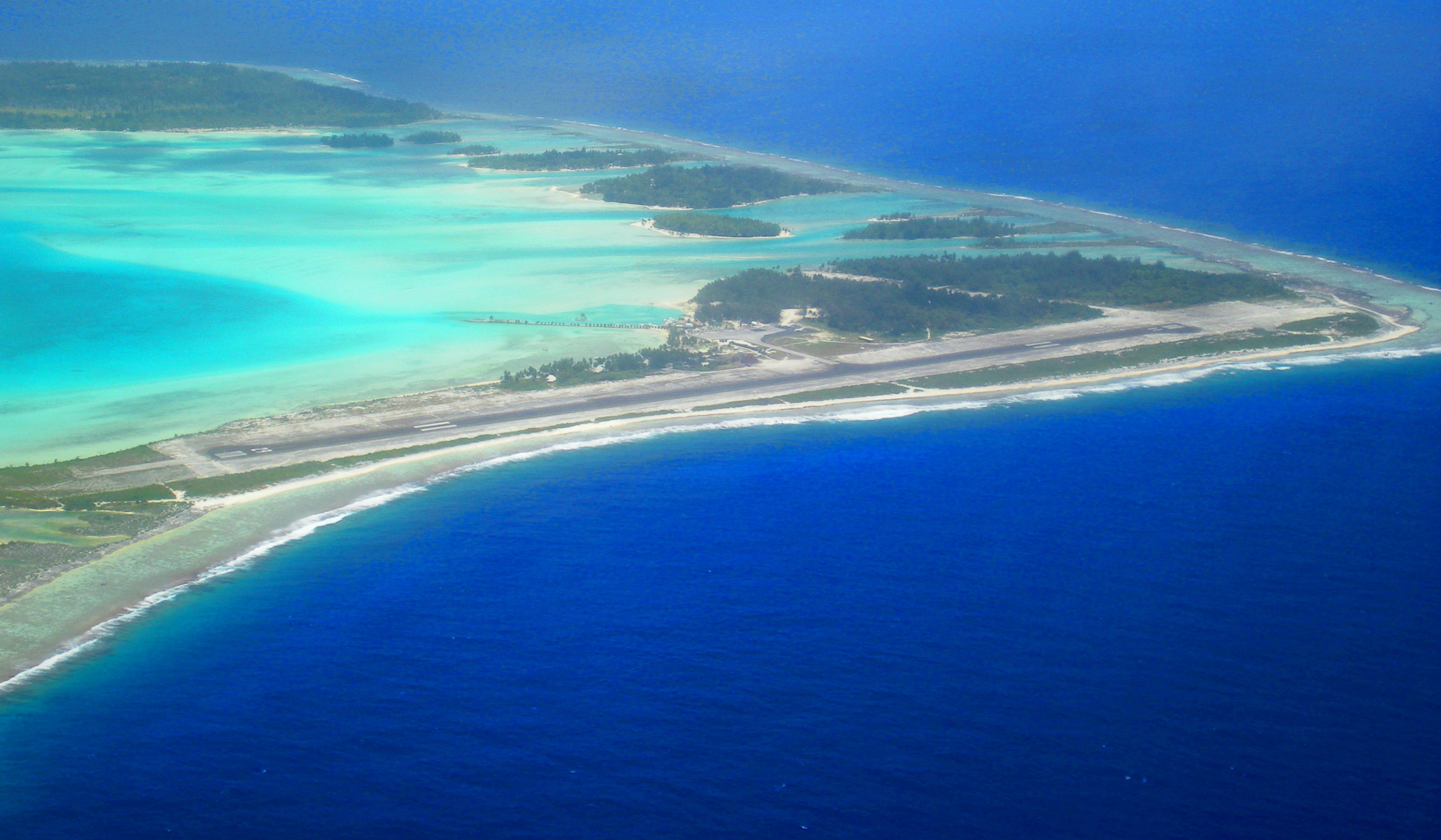 On approach to Bora Bora Airport.